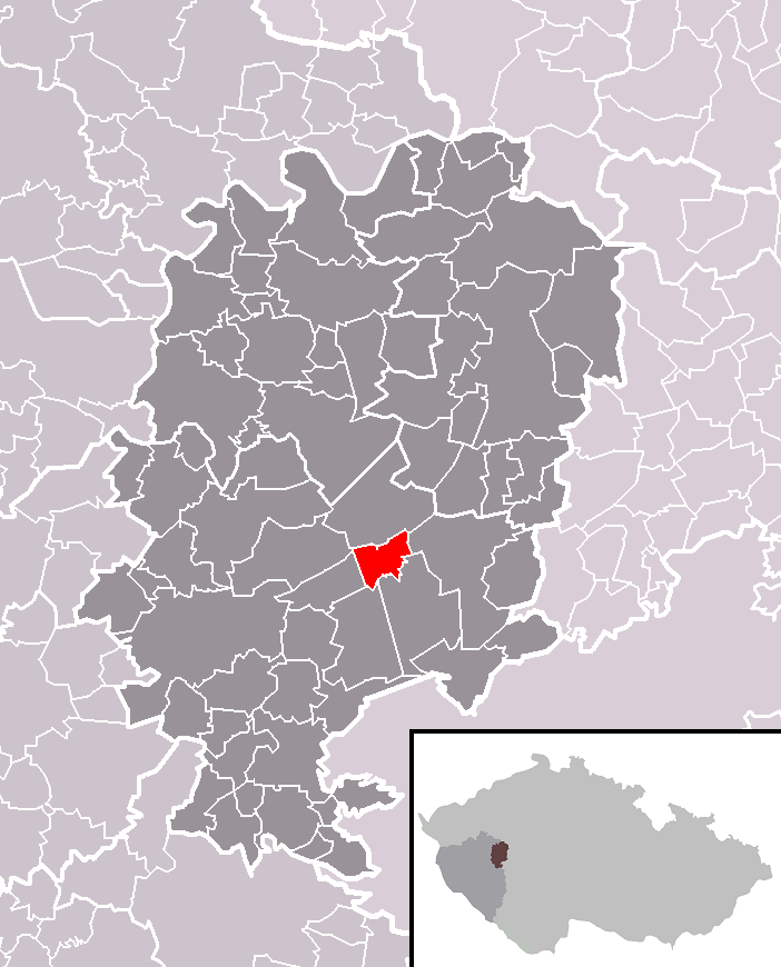 Location of Holoubkov municipality within Rokycany District and within identical administrative area of Rokycany as a Municipality with Extended Competence.